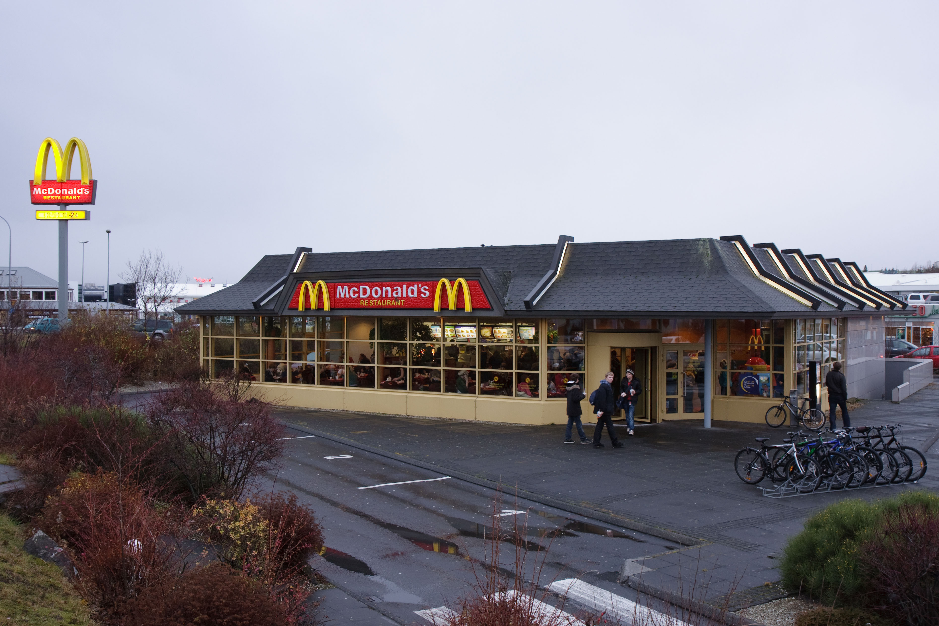 McDonald's restaurant at Suðurlandsbraut, Iceland. North side.